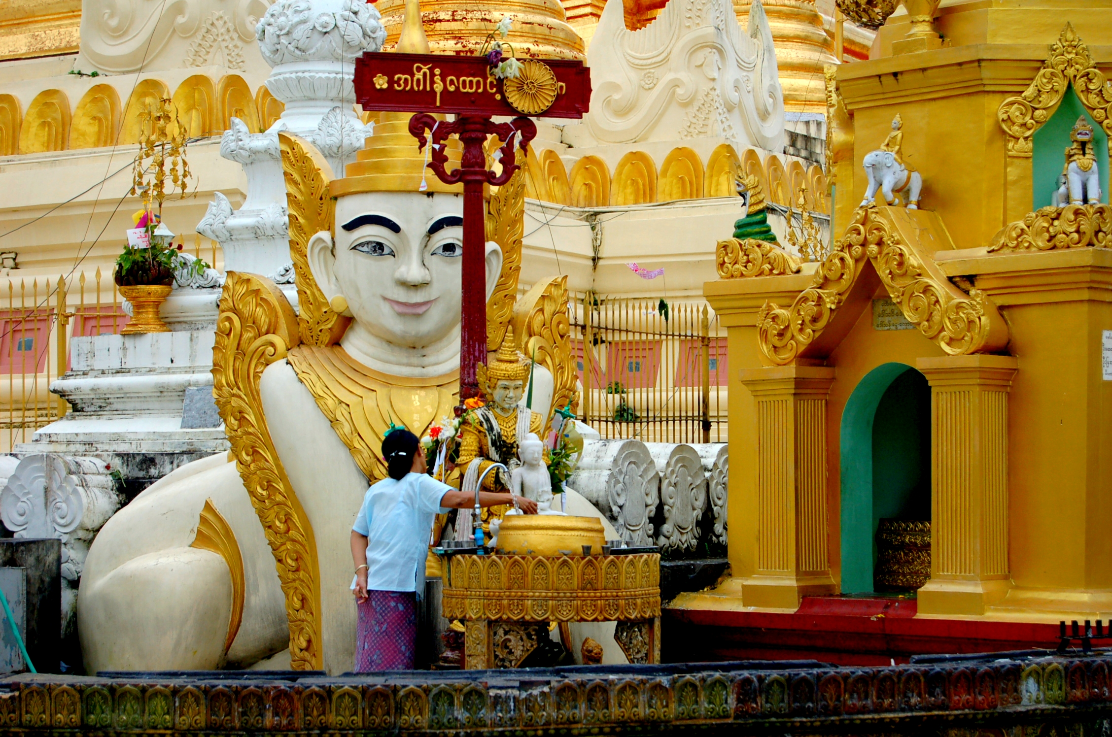 Planet guardian nat (gyo saung nat), Shwedagon Paya, Yangon, Myanmar